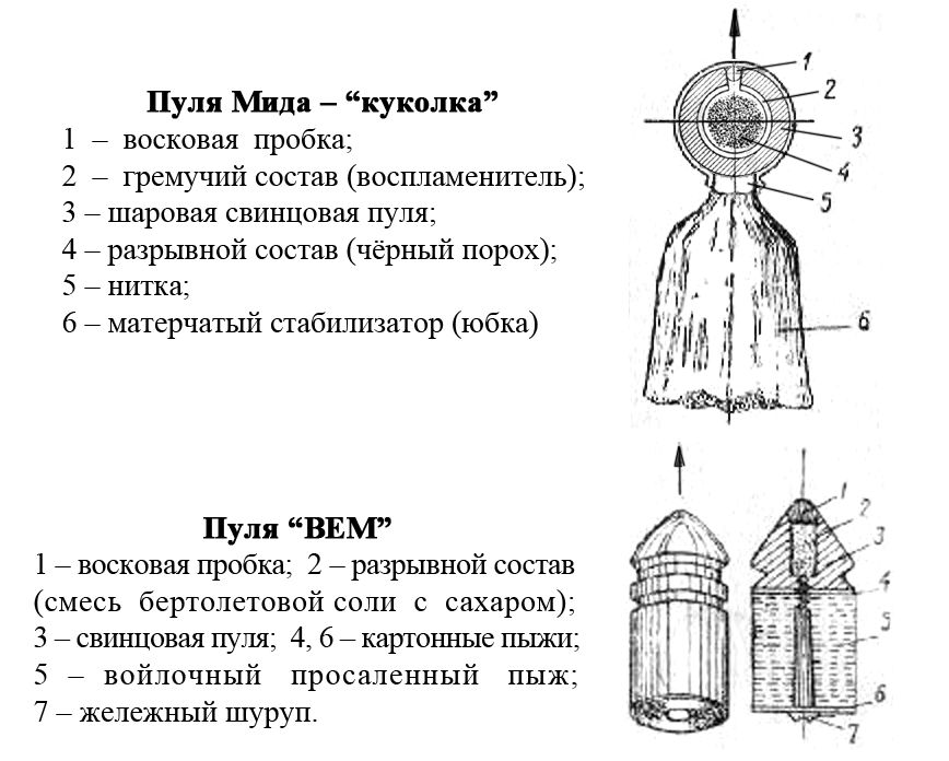 Shotgun explosive bullets: Mid's bullet and BEM